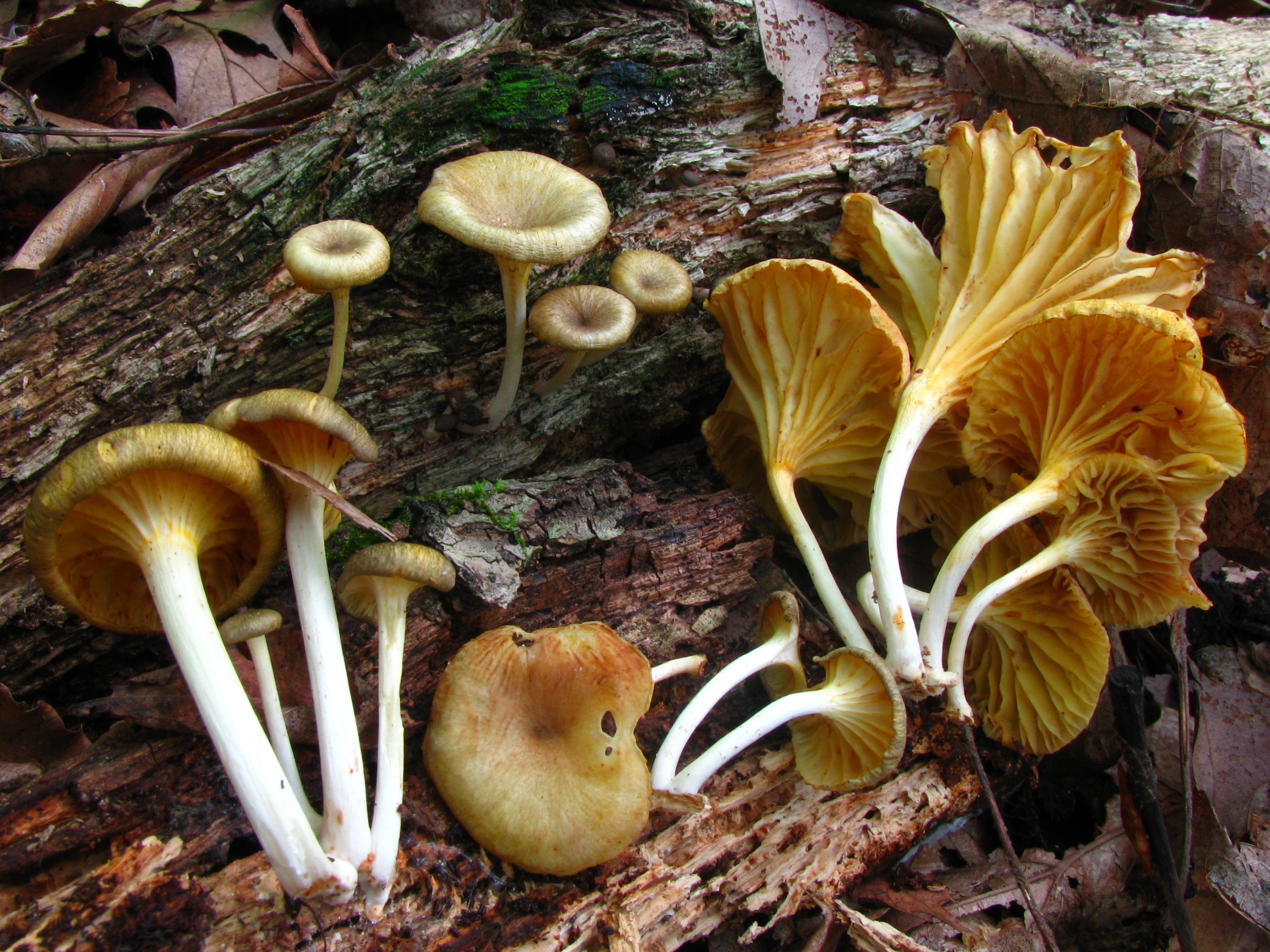 The mushroom Gerronema strombodes. Photographed in Strouds Run State Park, Athens, Ohio, USA.